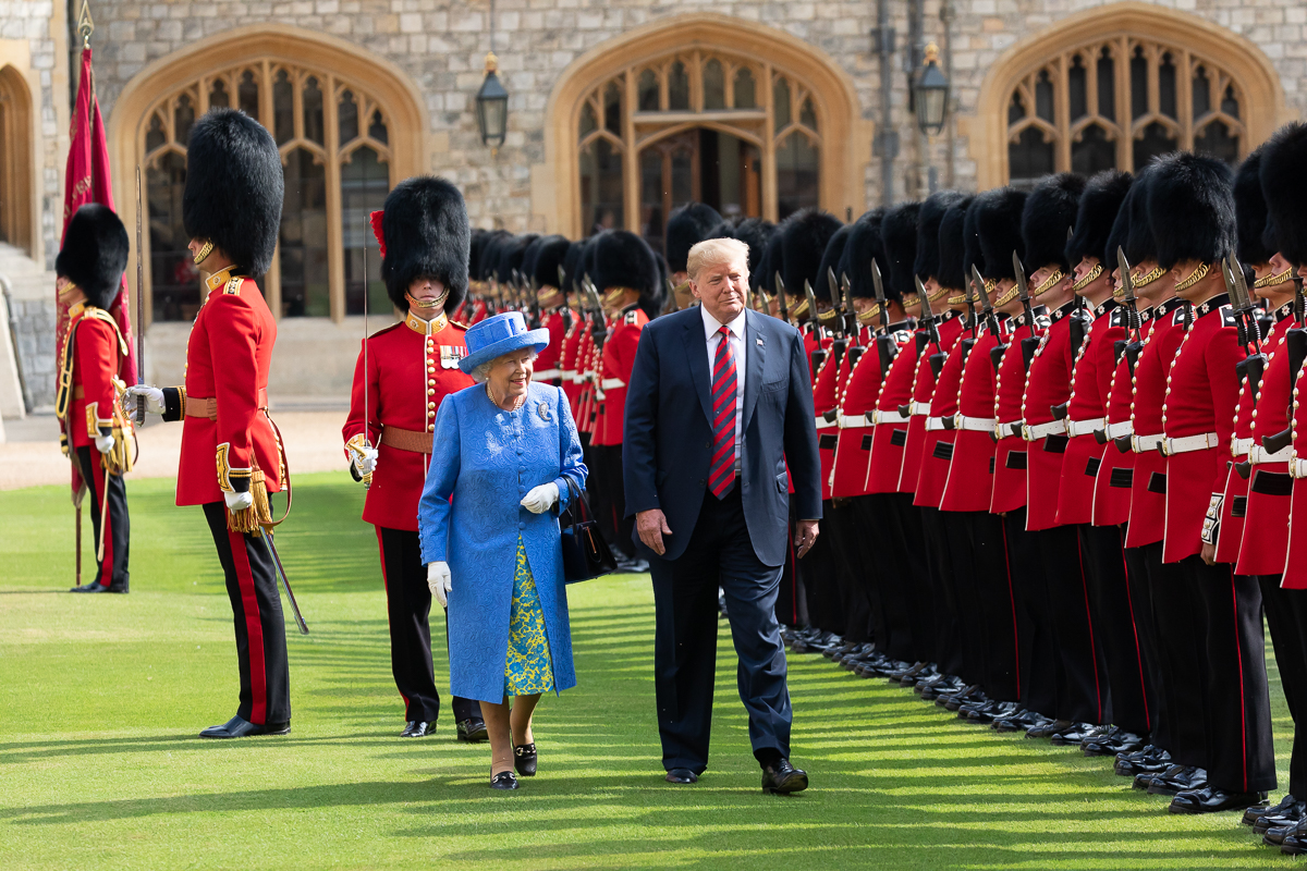 President Donald J. Trump and Her Majesty Queen Elizabeth II / July 13, 2018 (Official White House Photo by Andrea Hanks)